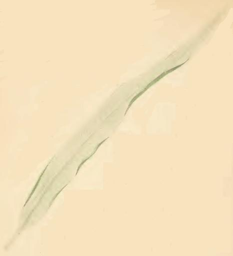 Stainton’s Natural History of the Tineina (1855–1873): Phyllonorycter viminetorum mined leaf of Salix viminalis